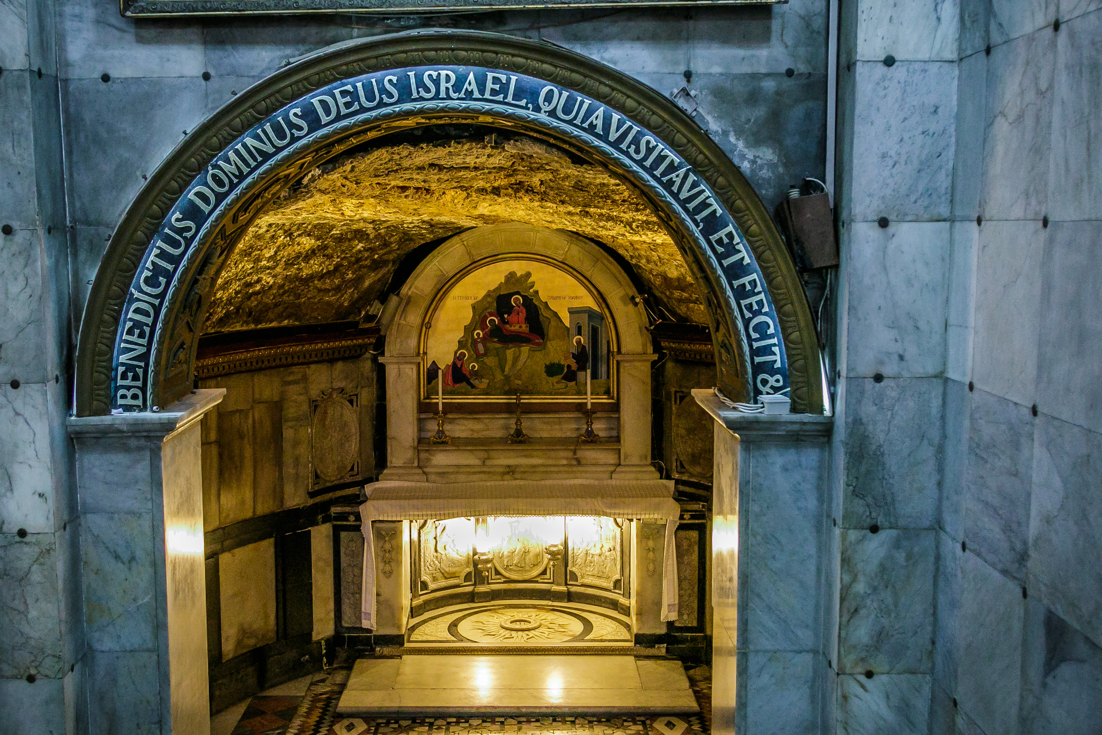 Ein Kerem - St.John the Baptist Church